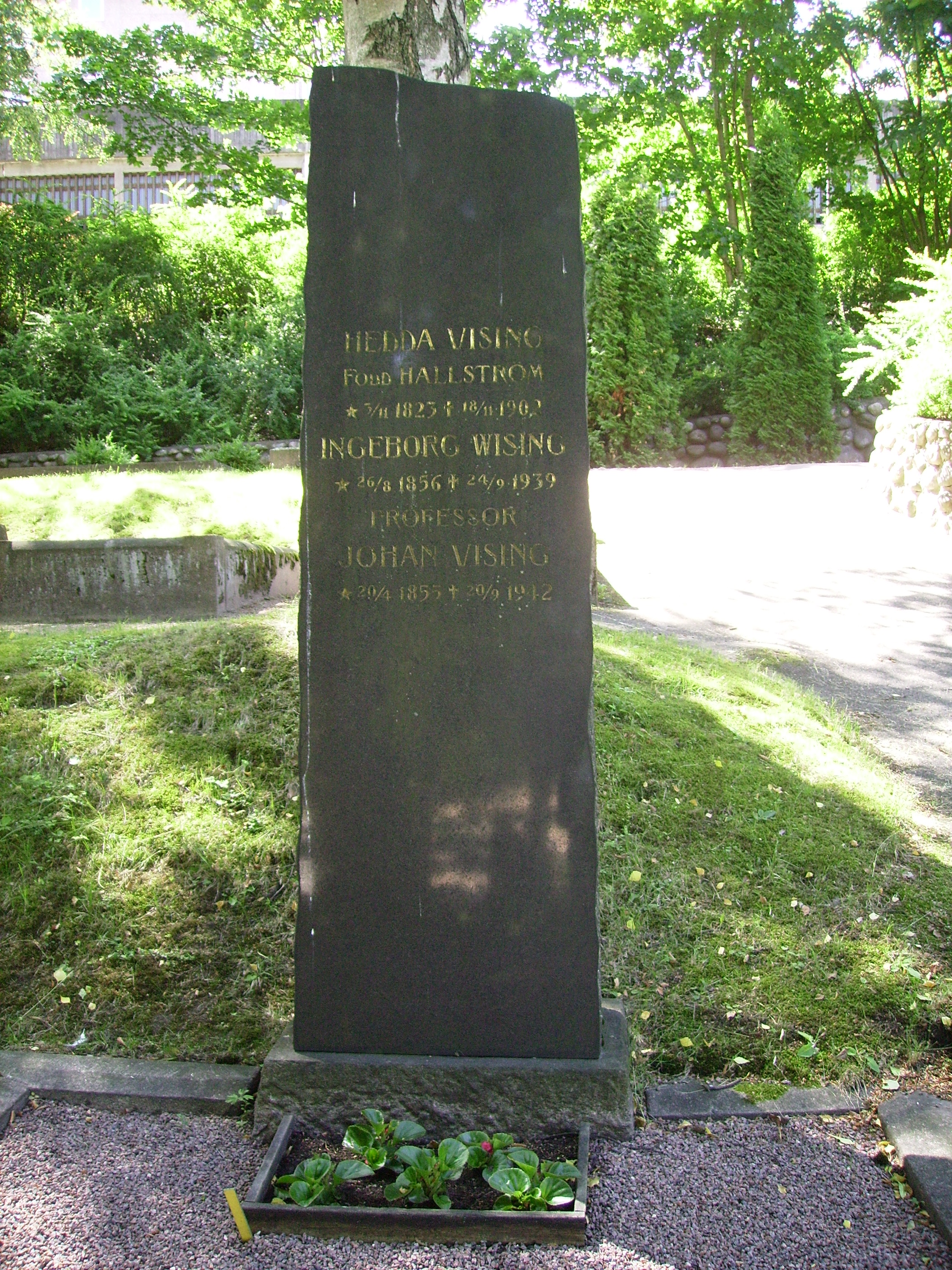 Picture of Johan Vising's grave at Östra kyrkogården in Gothenburg